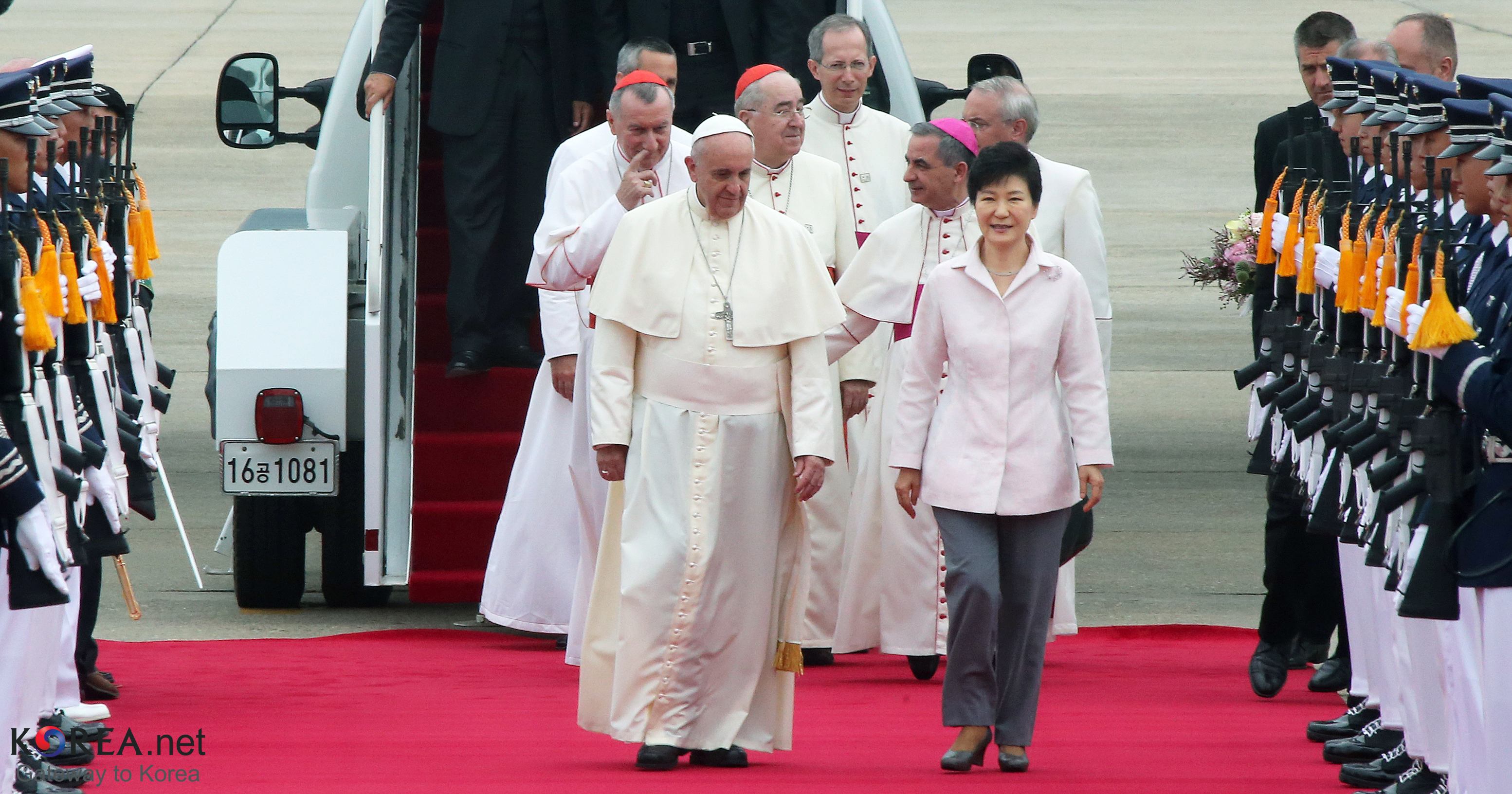 President Park Geun-hye welcomes Pope Francis at Seoul Airport on August 14.